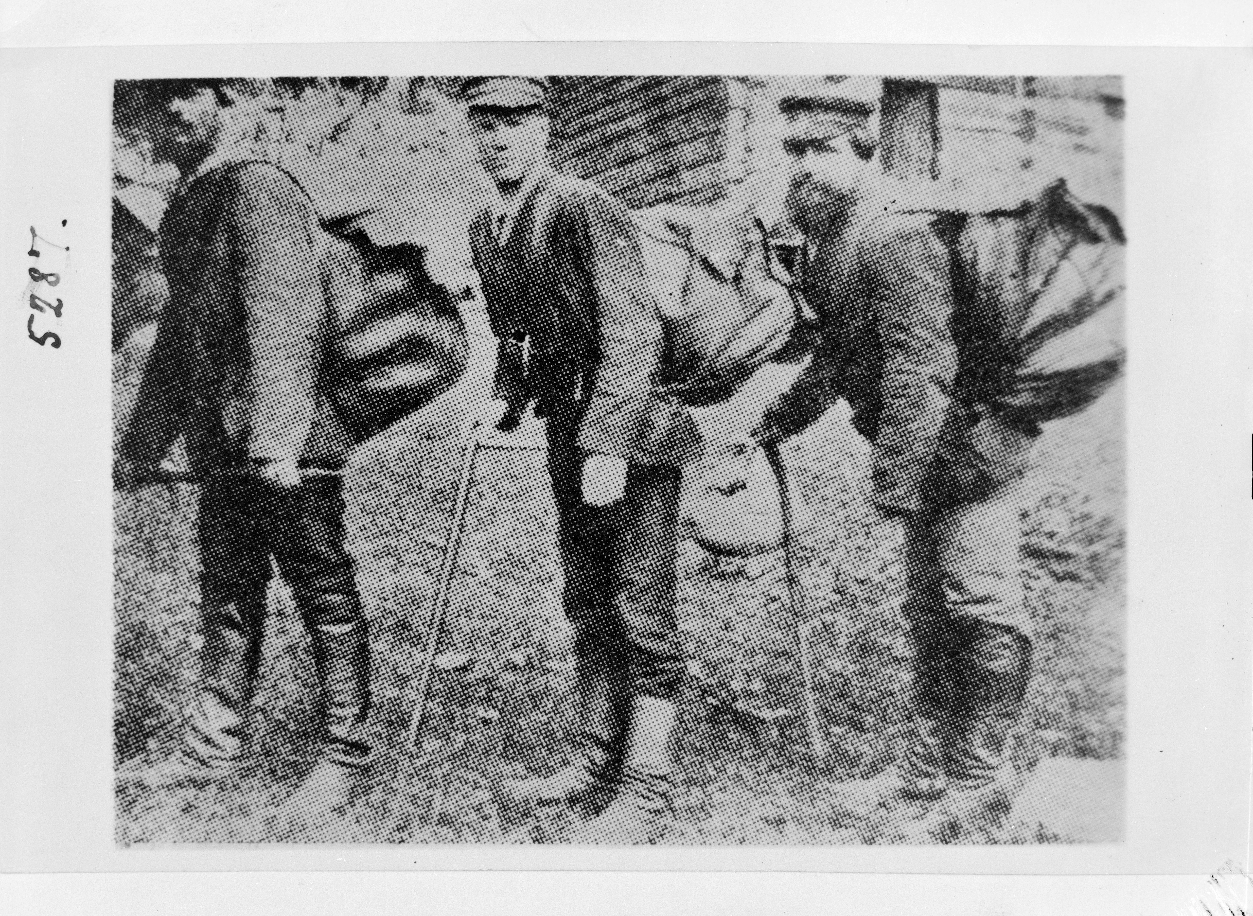 East Karelian ”laukkuryssä” peddlers from Kiestinki in Lohja, Finland. Simana Miinin (left) Johannes Arhippainen and Paavali Kusmin.